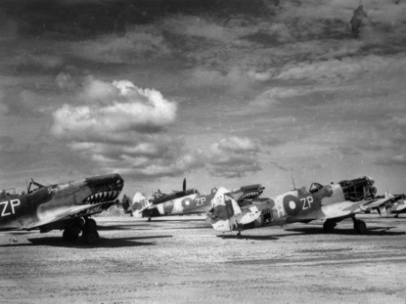 Australian War Memorial image P00727.008. Wrecked Spitfire aircraft of No. 457 Squadron RAAF awaiting disposal by being dumped in the sea at Labuan.